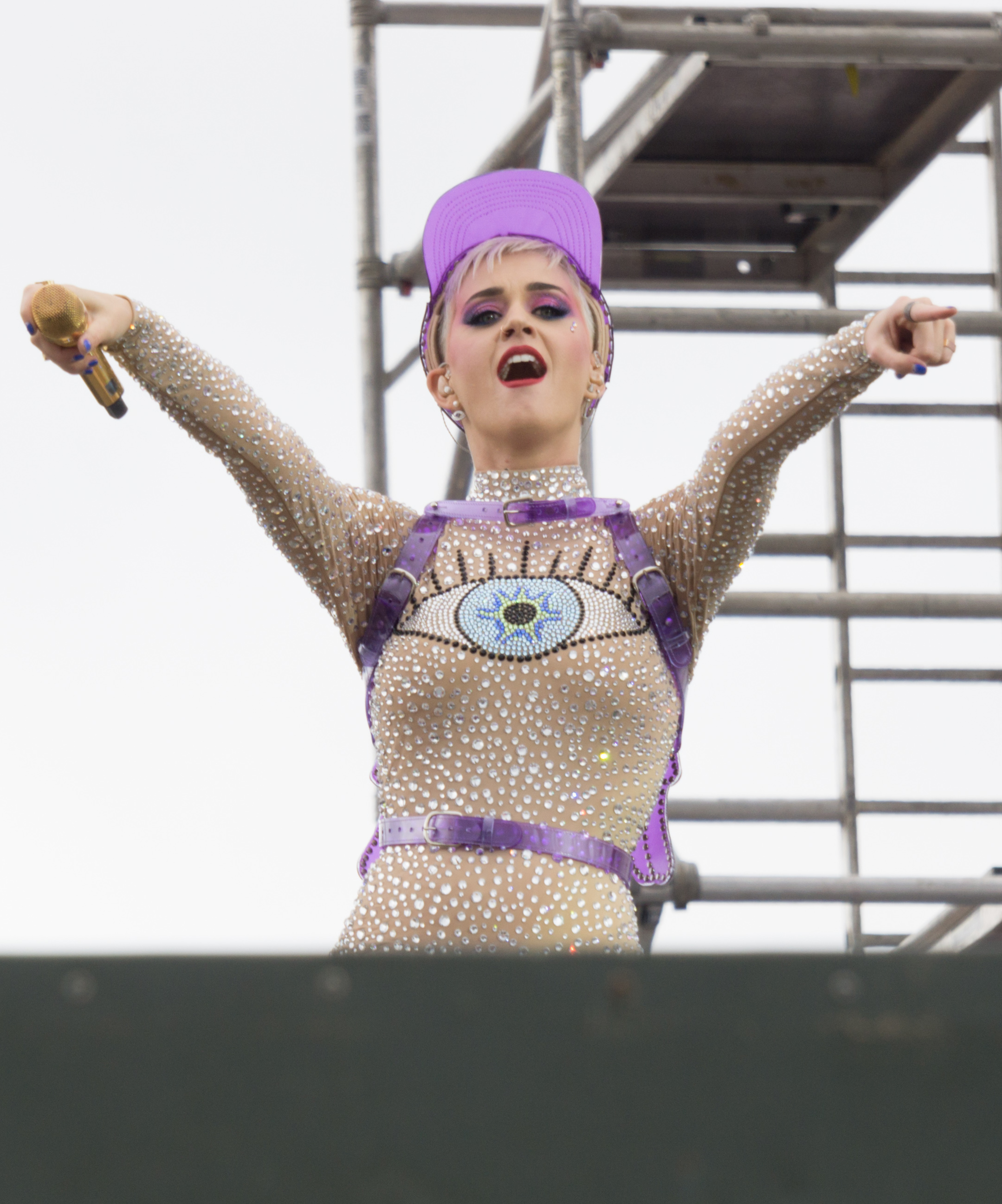 Katy Perry at Glastonbury Festival 2017